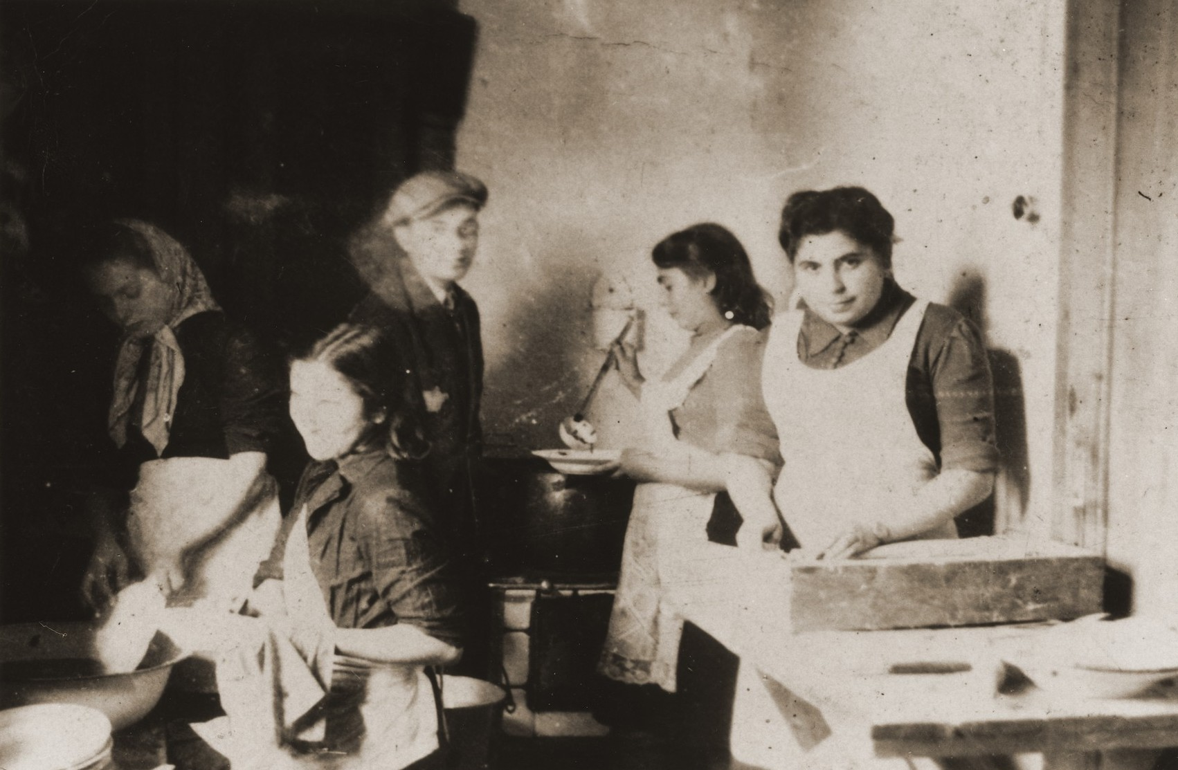 Ghetto Litzmannstadt: "Many ghetto residents depended on public soup kitchens for their daily meal"